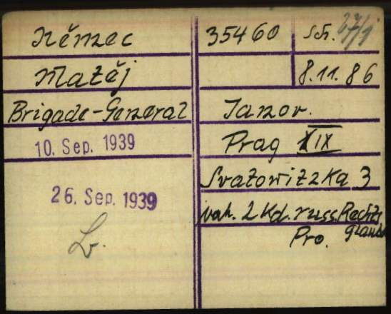 Registration card of Matěj Němec as a prisoner at Dachau Nazi Concentration Camp.